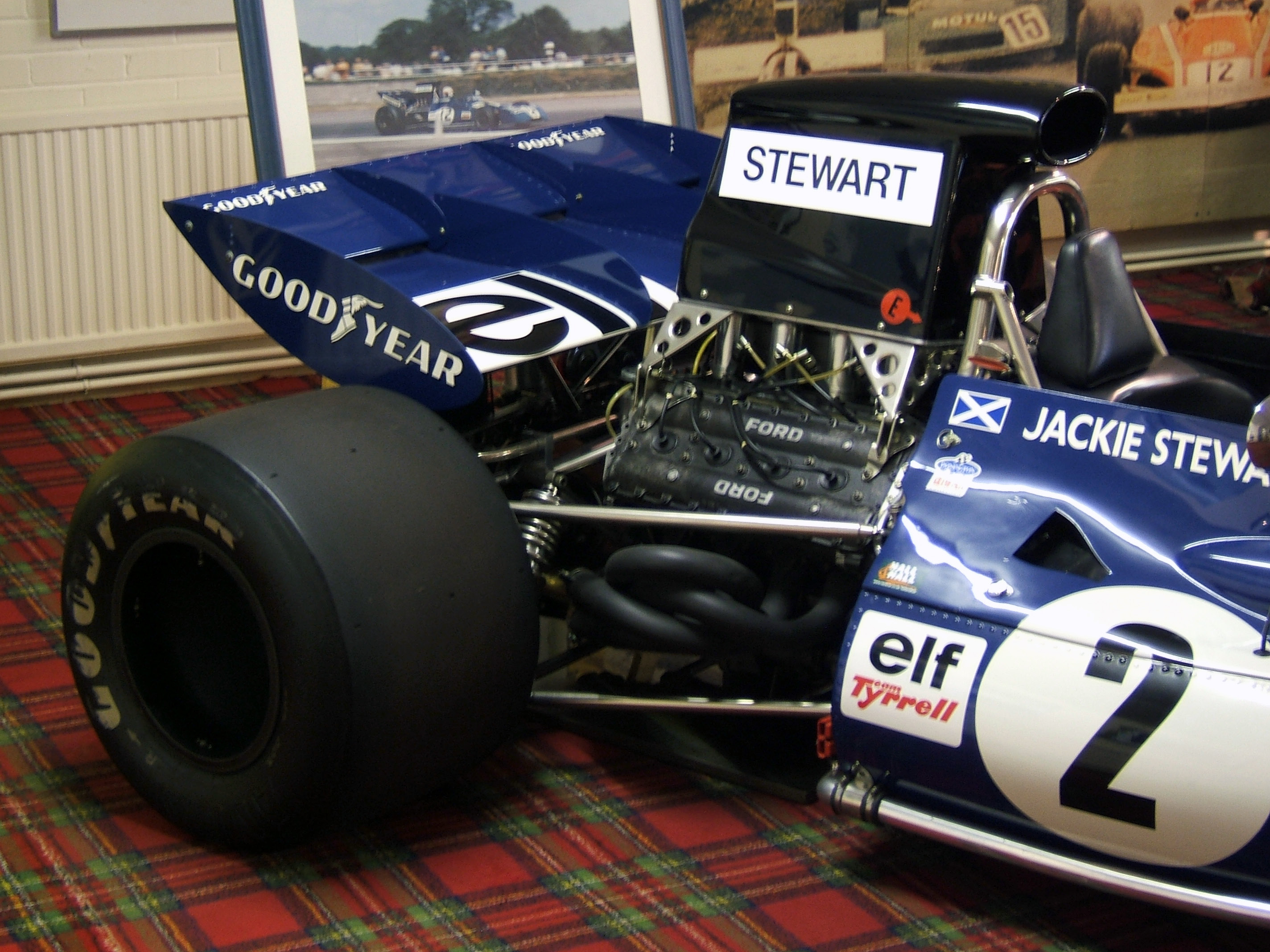 The rear end of Tyrrell 003, showing its Cosworth DFV engine installation. In the Donington Grand Prix Collection museum, Leics., UK